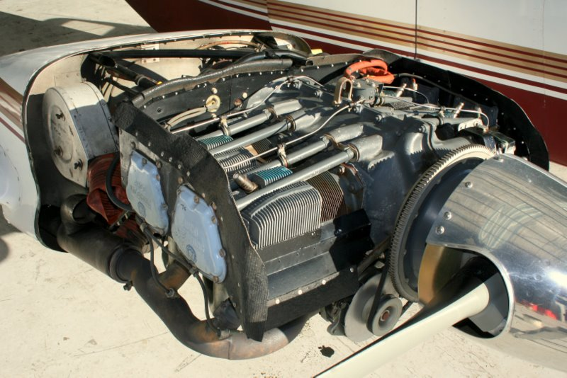 A Lycoming LIO-360 engine mounted on the wing of a Piper Seneca I